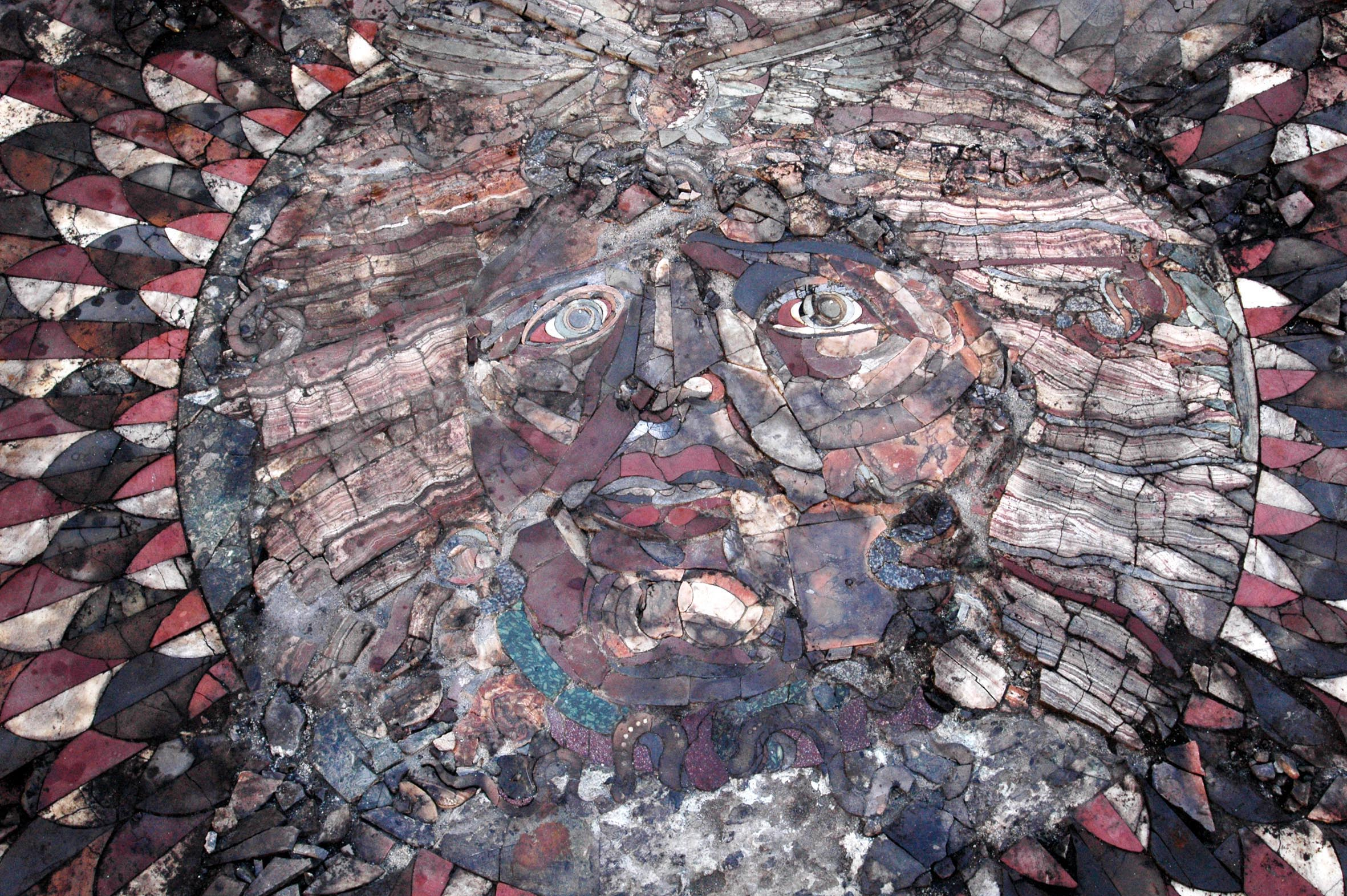 Mosaic floor in the odeon of Kibyra, close to Gölhisar (Turkey).